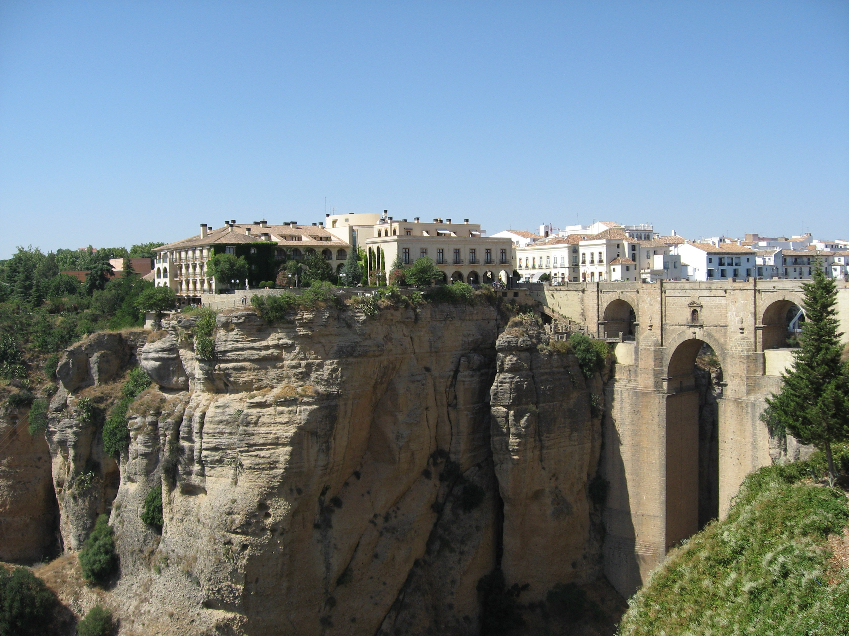 Bridge in Ronda